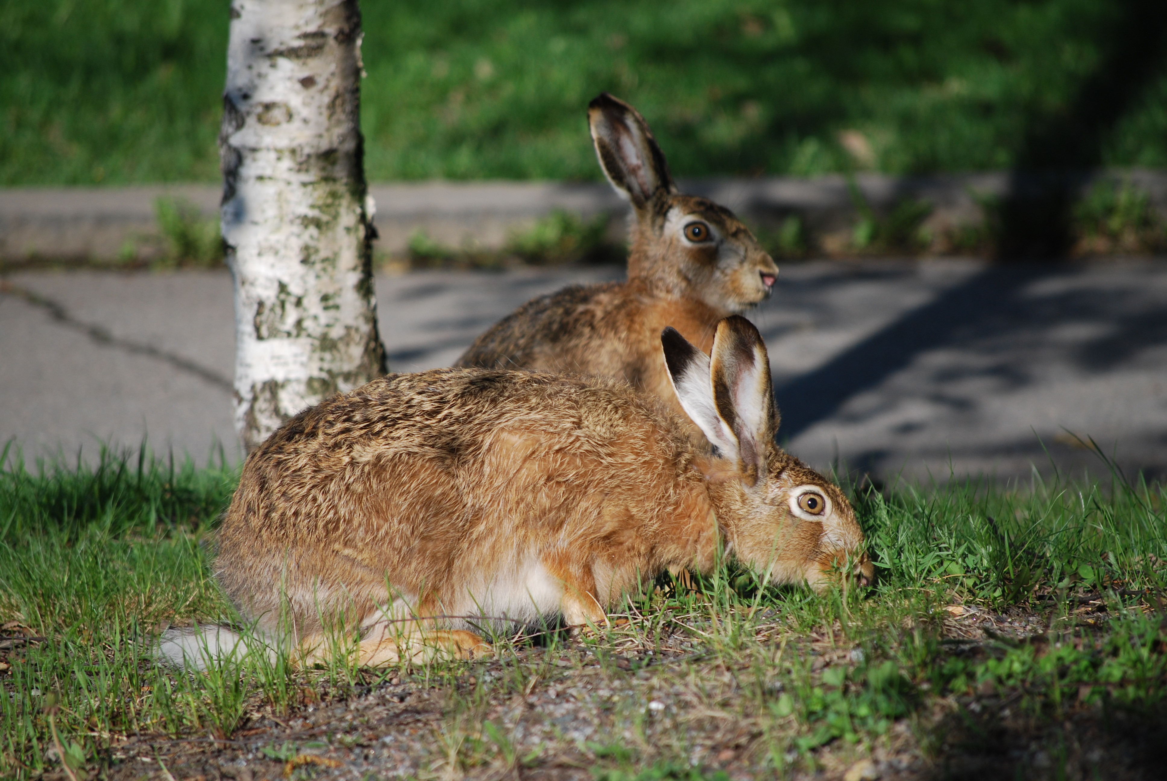 European Hare in Tampere, Finland